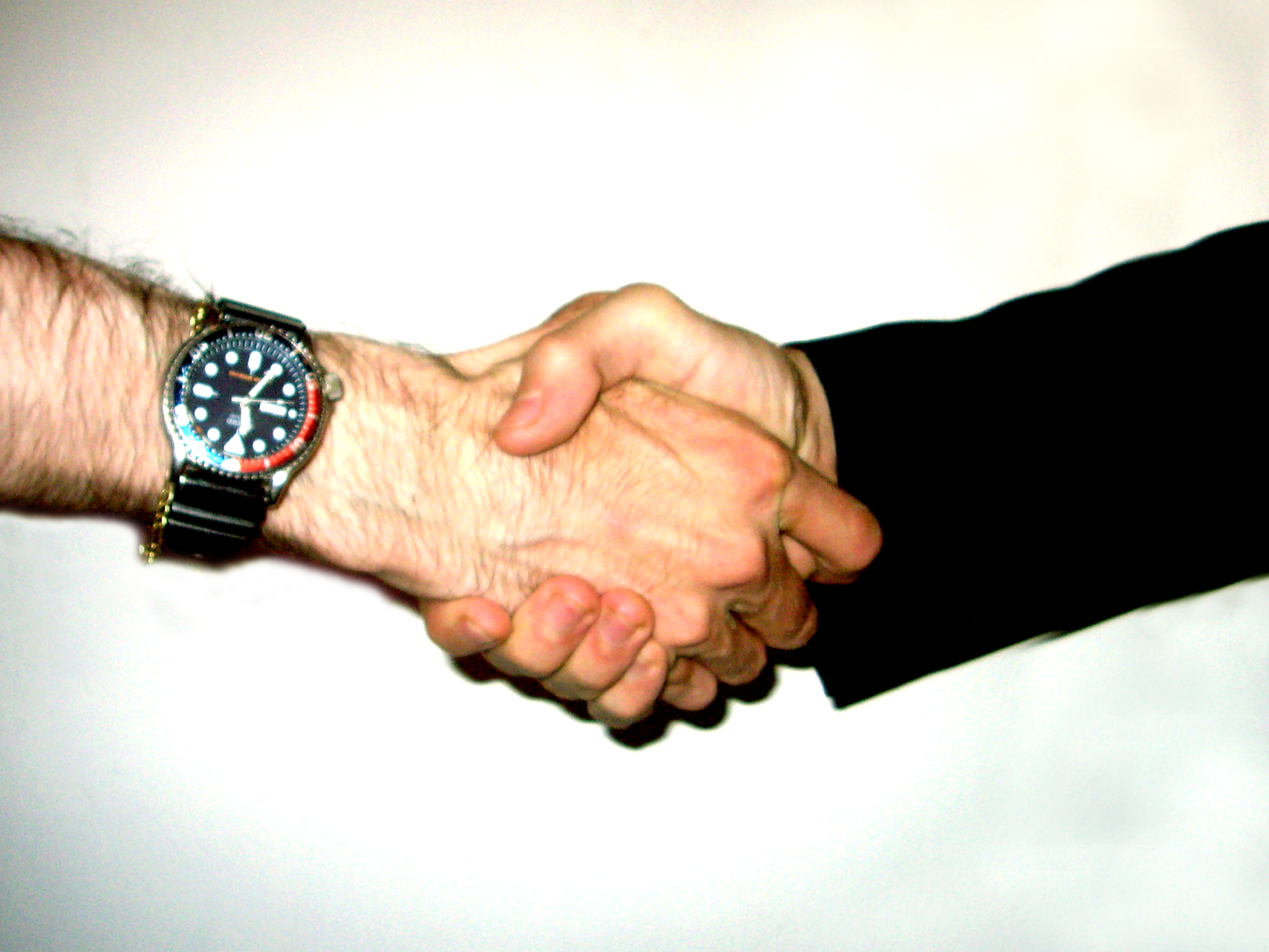 Two persons shaking hand